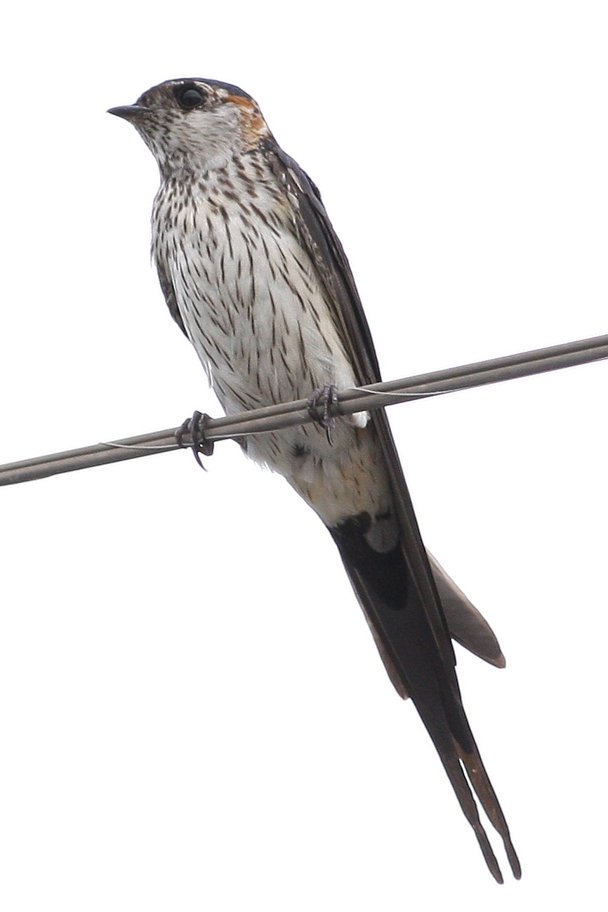 Author: Hkchan123 Source: Taken by user Date: 23rd May 2008 in Hong Kong